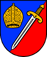 Source: "Fahnen-Gärtner GmbH, Mittersill" This file depicts a coat of arms. The composition of coats of arms are generally public domain with respect to copyright laws, and may be reproduced freely. This corresponds to the international traditional usage, and is explicitly stated in some national copyright laws. Some compositions, of more recent origin, may be copyrighted. This is not a valid license as such, being a "public domain" statement for the coat of arms definition only. It must be completed with the copyright tag associated to the picture creation. See Commons:Coats of arms for further information. Please note that this applies only to the coat of arms definition (composition / description). The representation of a coat of arms is an artistic creation, subject as such to copyright laws. Restriction of use - Legal notice: Most of the time, the usage of coats of arms is governed by legal restrictions, independent of the status of the depiction shown here. A coat of arms represents its owner. Though it can be freely represented, it cannot be appropriated, or used in such a way as to create a confusion with or a prejudice to its owner. Usage on Commons: Please provide licence information for the coat of arm representation, information for the author of the picture, and the source if not self-made work.